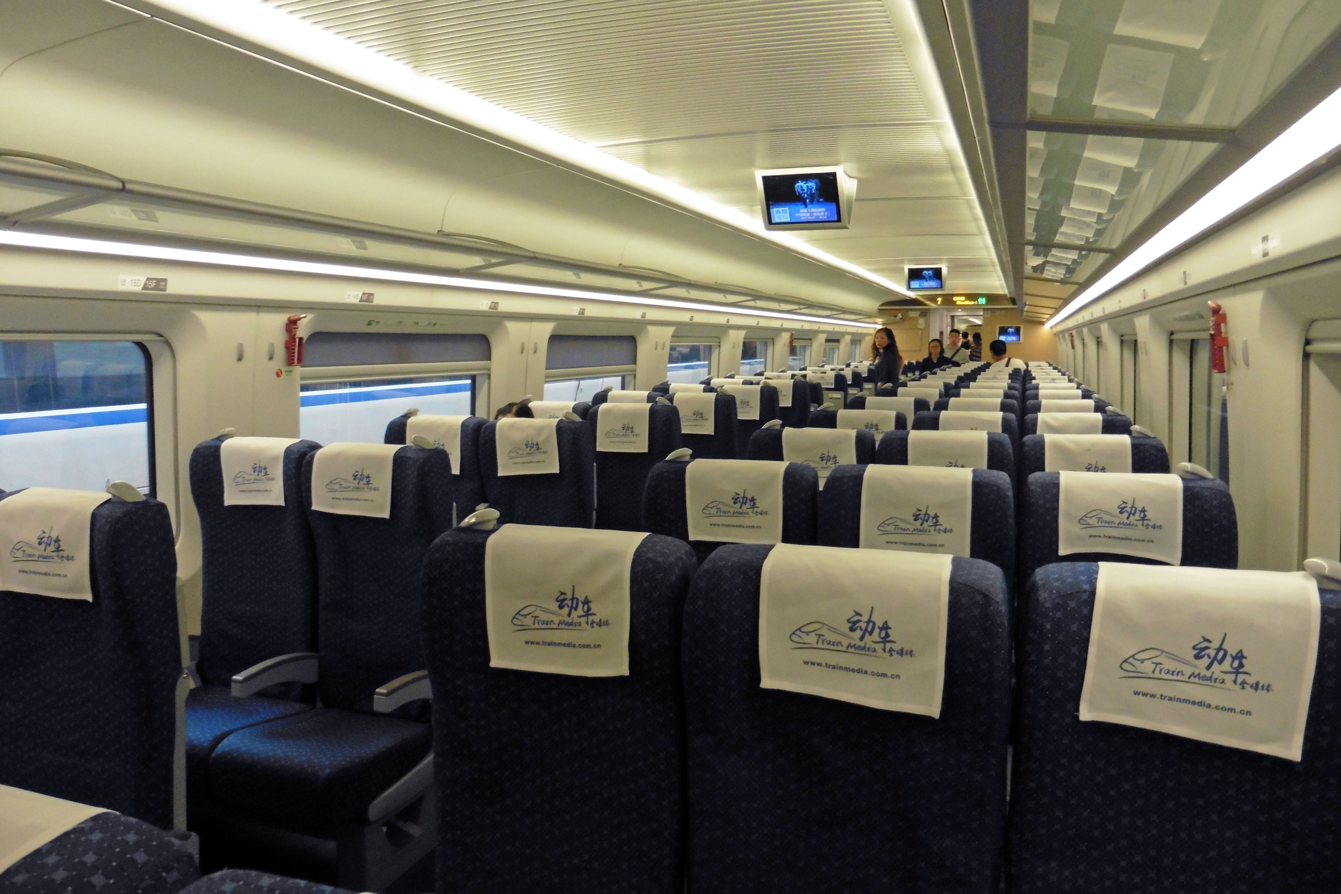 Inside the new style trains running to Guangzhou.